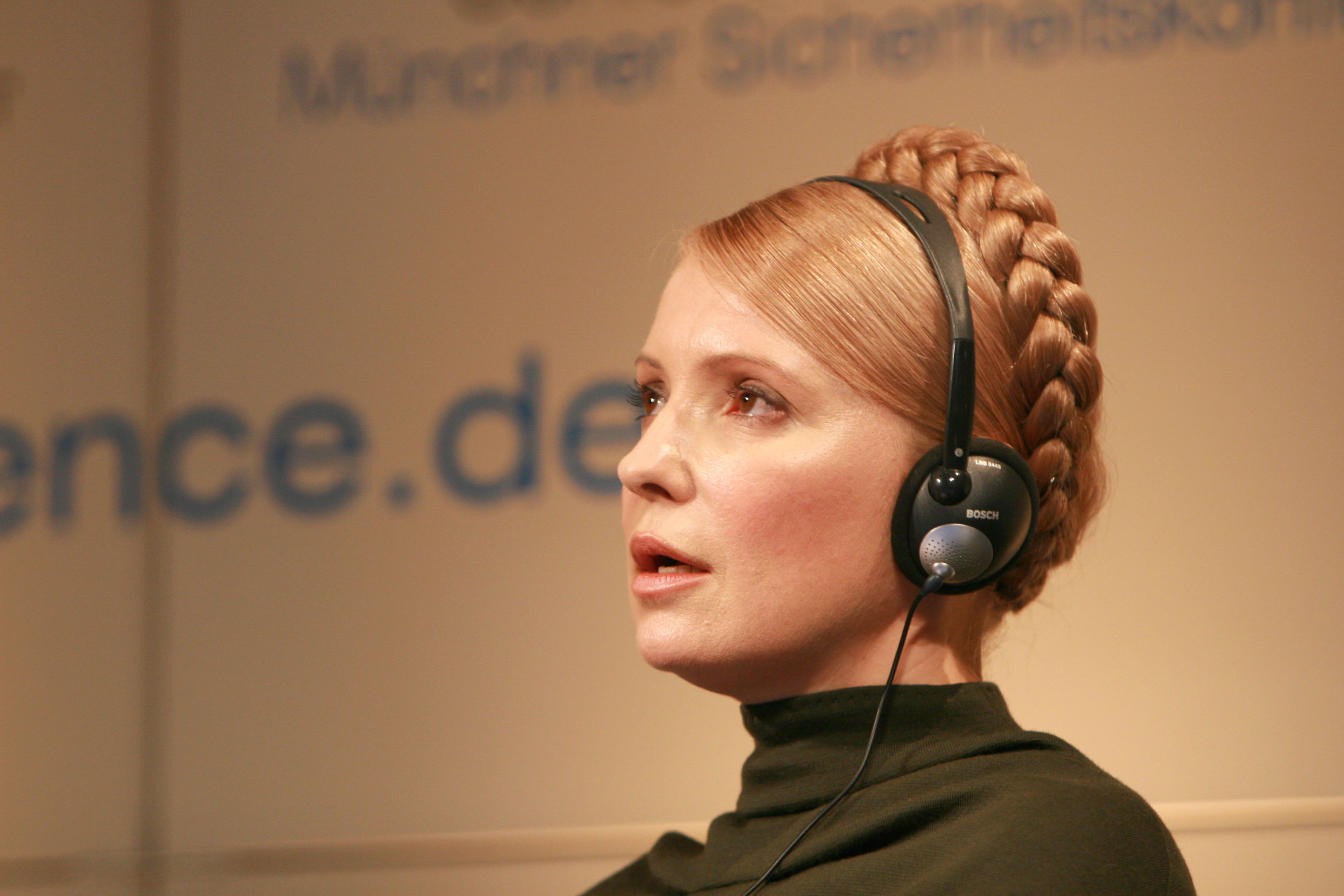 45th Munich Security Conference 2009: The Prime Minister of the Ukraine, Yulia V. Timoshenko.